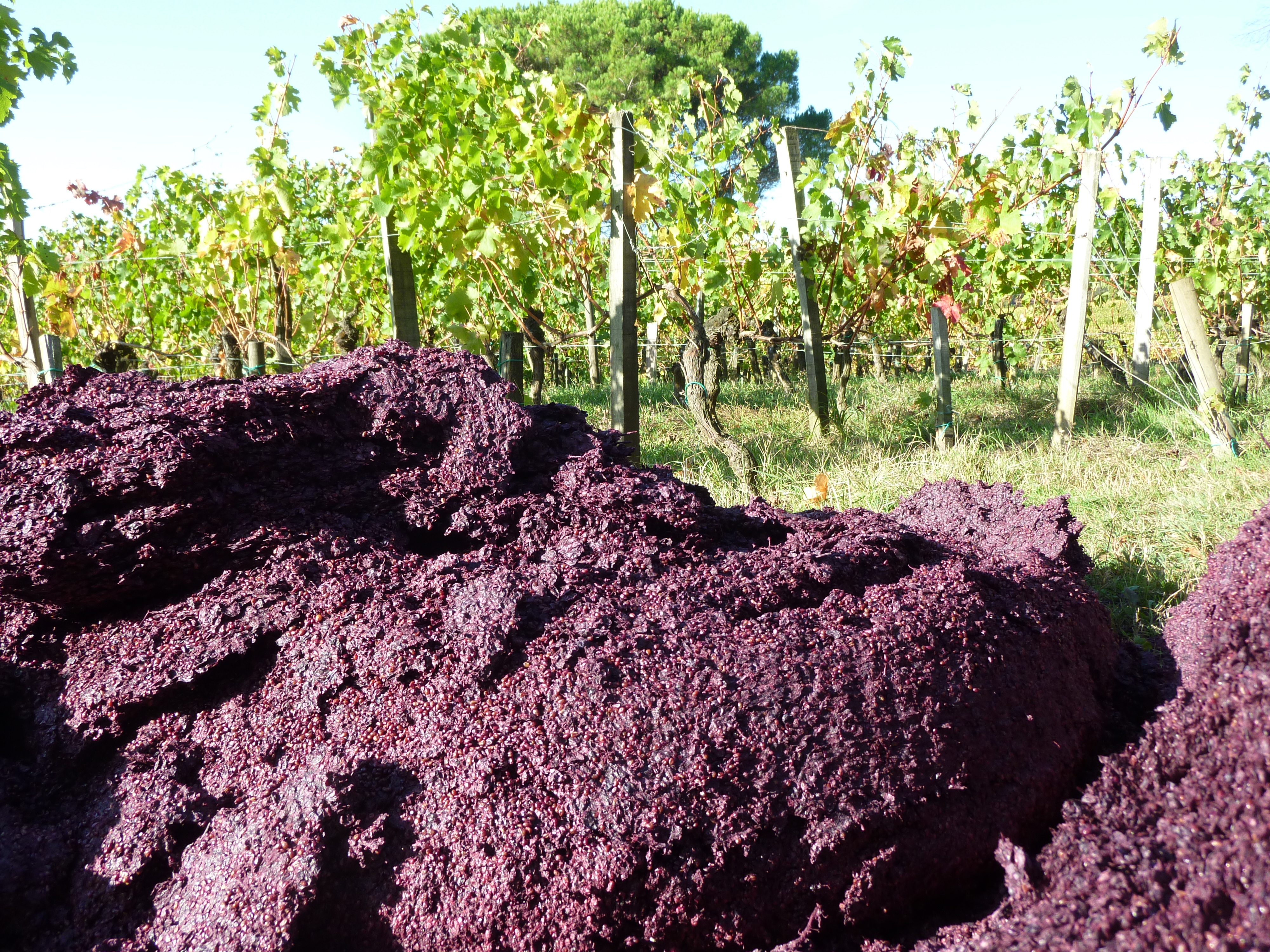 Remnants of pressing red wine grapes--the pomace which contains grape skins and seeds. This is often added back to the vineyard as compost to help encourage favorable wild yeast and flora.